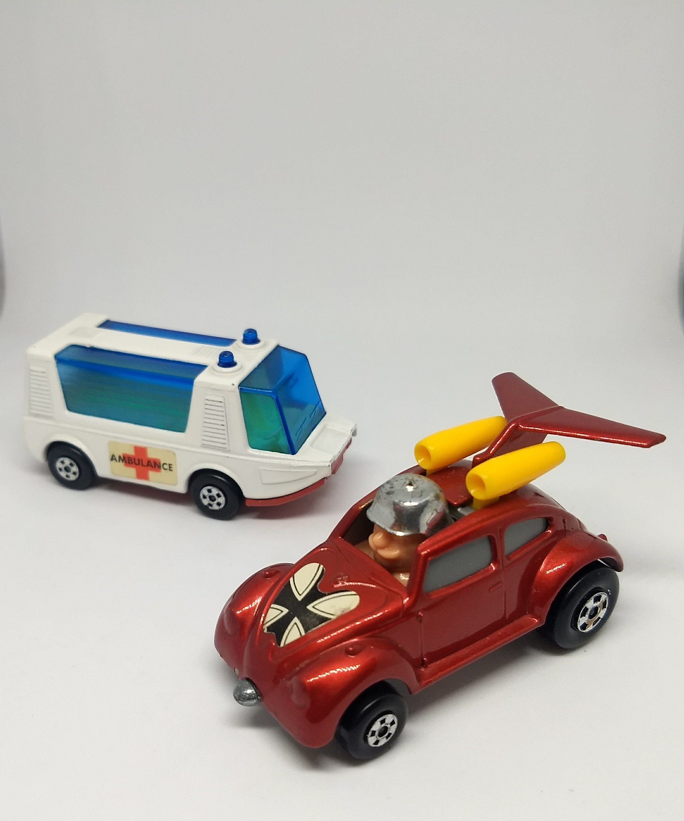 Two Superfast models by Matchbox